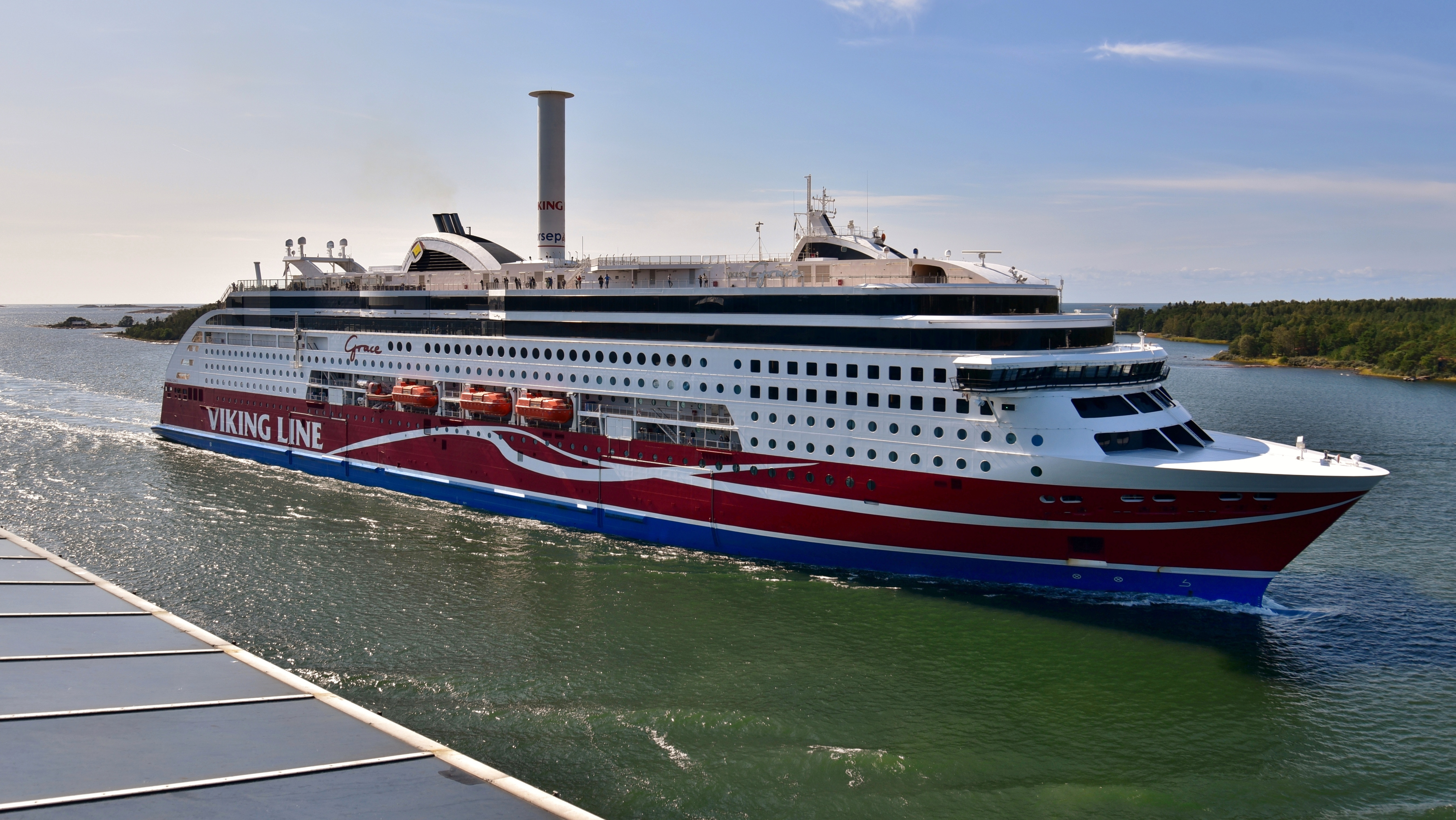 Viking Line cruiseferry MS Viking Grace arriving at the ferry terminal at Västerhamn, Mariehamn, Åland Islands en route from Stockholm - photo taken from a deck of the MS Galaxy, one of the Viking Grace's Silja Line competitor cruiseferries on the Turku to Stockholm route.